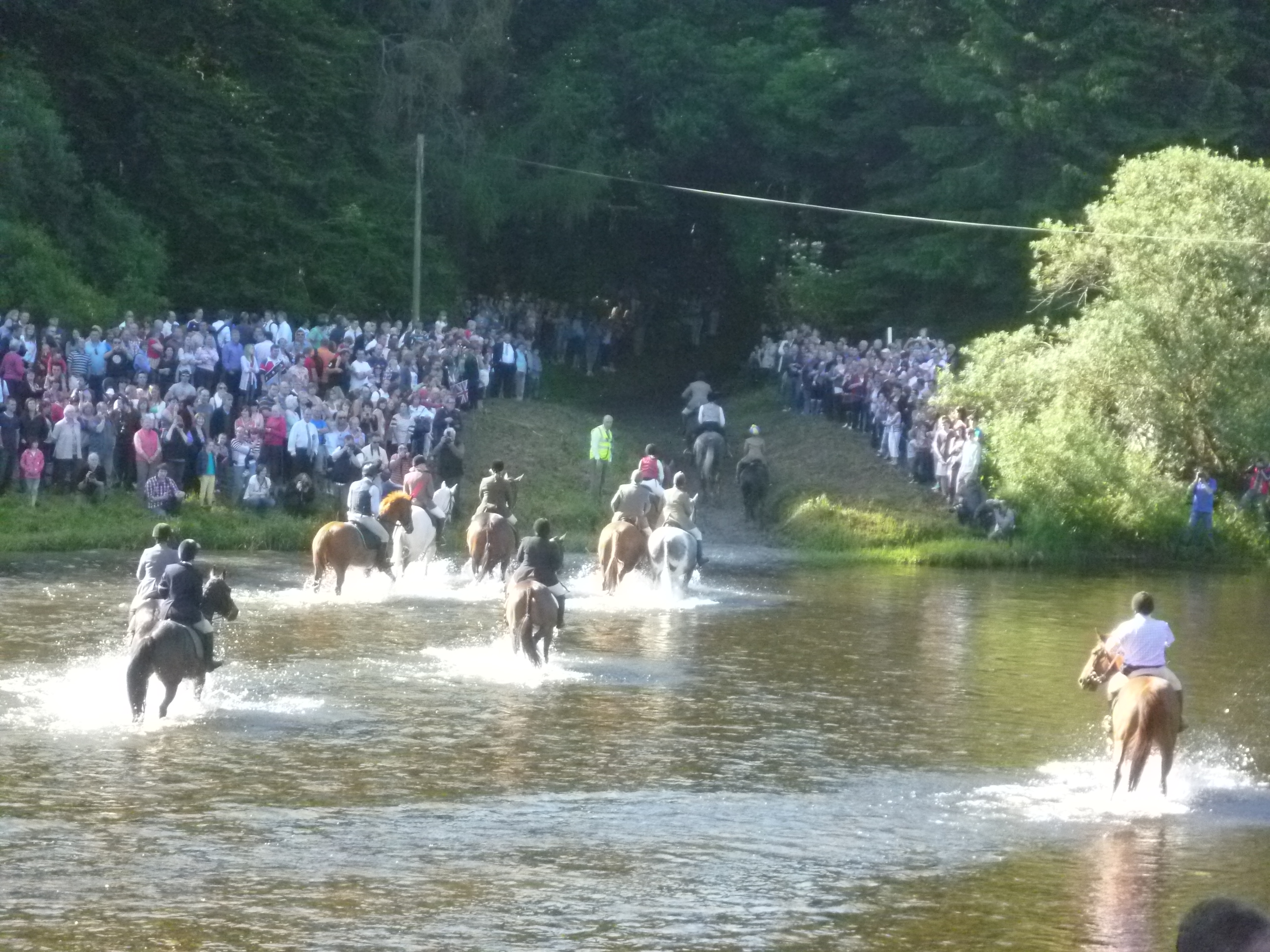 The skills of horsemanship are kept alive in the Scottish Borders. "The Scots are bold, hardy, and much inured to war. When they make their invasions into England, they march from twenty to four-and-twenty leagues without halting, as well by night as day; for they are all on horseback, except the camp-followers, who are on foot. The knights and esquires are well mounted on large bay horses, the common people on little galloways. They have no carriages with them, on account of the mountains they have to pass in Northumberland; neither do they carry with them any provisions of bread or wine; for their habits of sobriety are such, in time of war, that they will live for a long time on flesh half sodden, without bread, and drink the river water without wine. They have, therefore, no occasion for pots or pans; for they dress the flesh of their cattle in the skins, after they have taken them off; and, being sure to find plenty of them in the country which they invade, they carry none with them. Under the flaps of his saddle, each man carries a broad plate of metal; behind the saddle, a little bag of oatmeal: when they have eaten too much of the sodden flesh, and their stomach appears weak and empty, they place this plate over the fire, mix with water their oatmeal, and when the plate is heated, they put a little of the paste upon it, and make a thin cake, like a cracknel or biscuit, which they eat to warm their stomachs: it is therefore no wonder, that they perform a longer day's march than other soldiers." -- Jean Froissart, Chroniques, c.1385